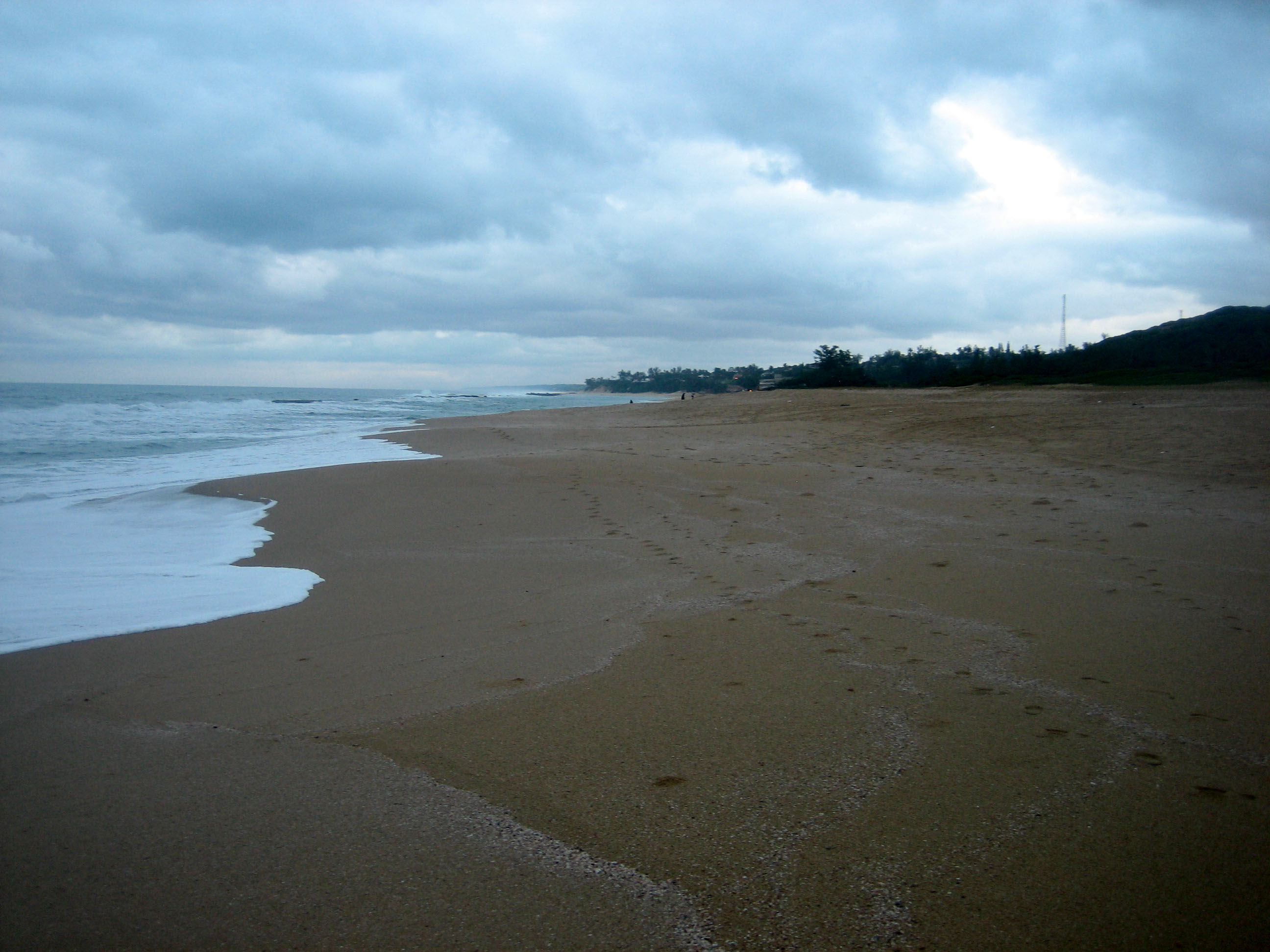 Xai-Xai, Mozambique